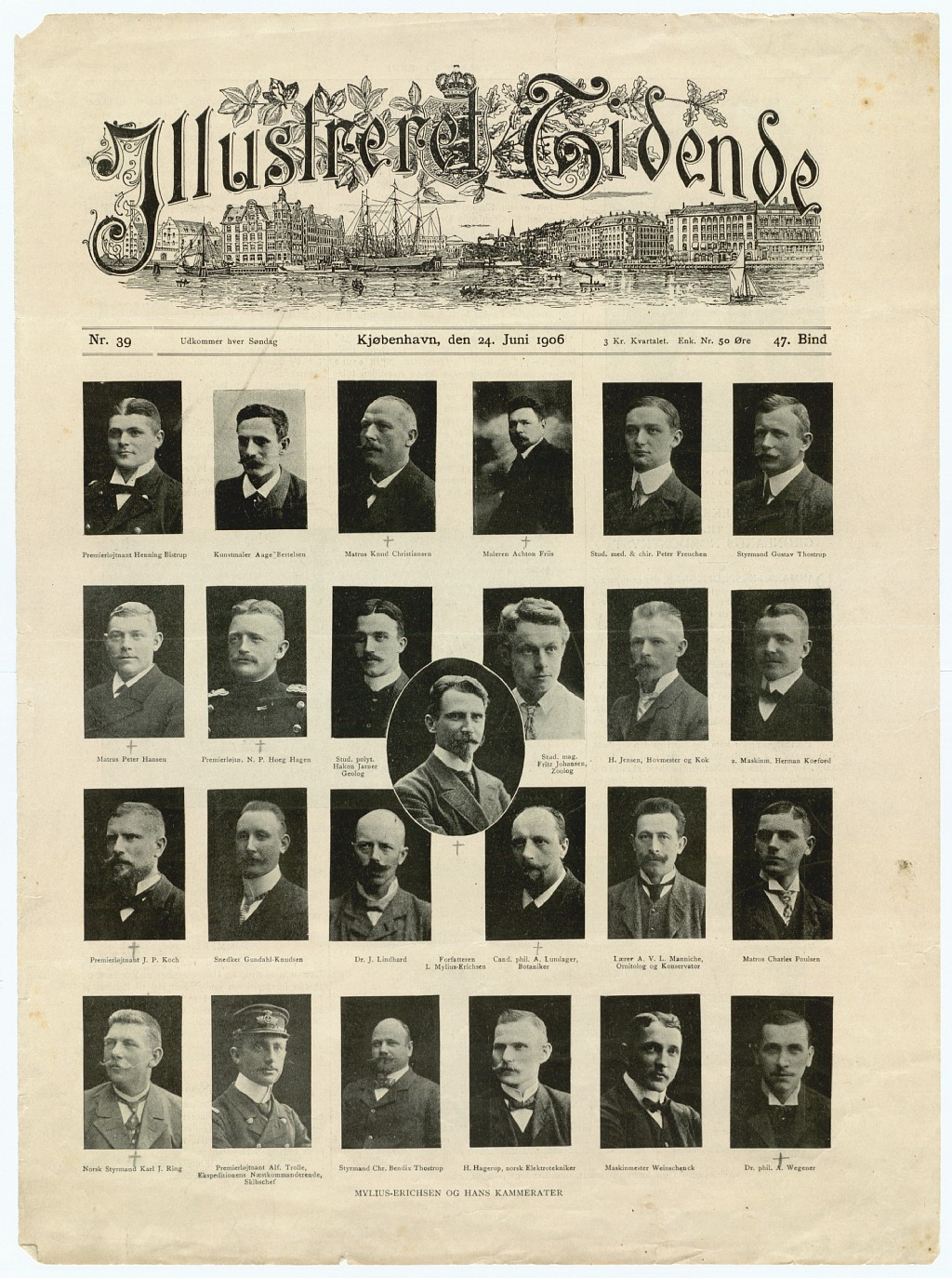 The members of the Denmark Expedition on board the ship "Danmark" in Frederikshavn.